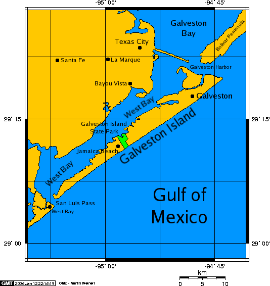 A map of Galveston Island, a barrier island on Galveston Bay of the Gulf Coast of Texas. The city of Galveston, Texas is located on part of the island. It is about 50 miles (80 kilometers) south of the city of Houston. Credits The map was created with this online map creation tool.